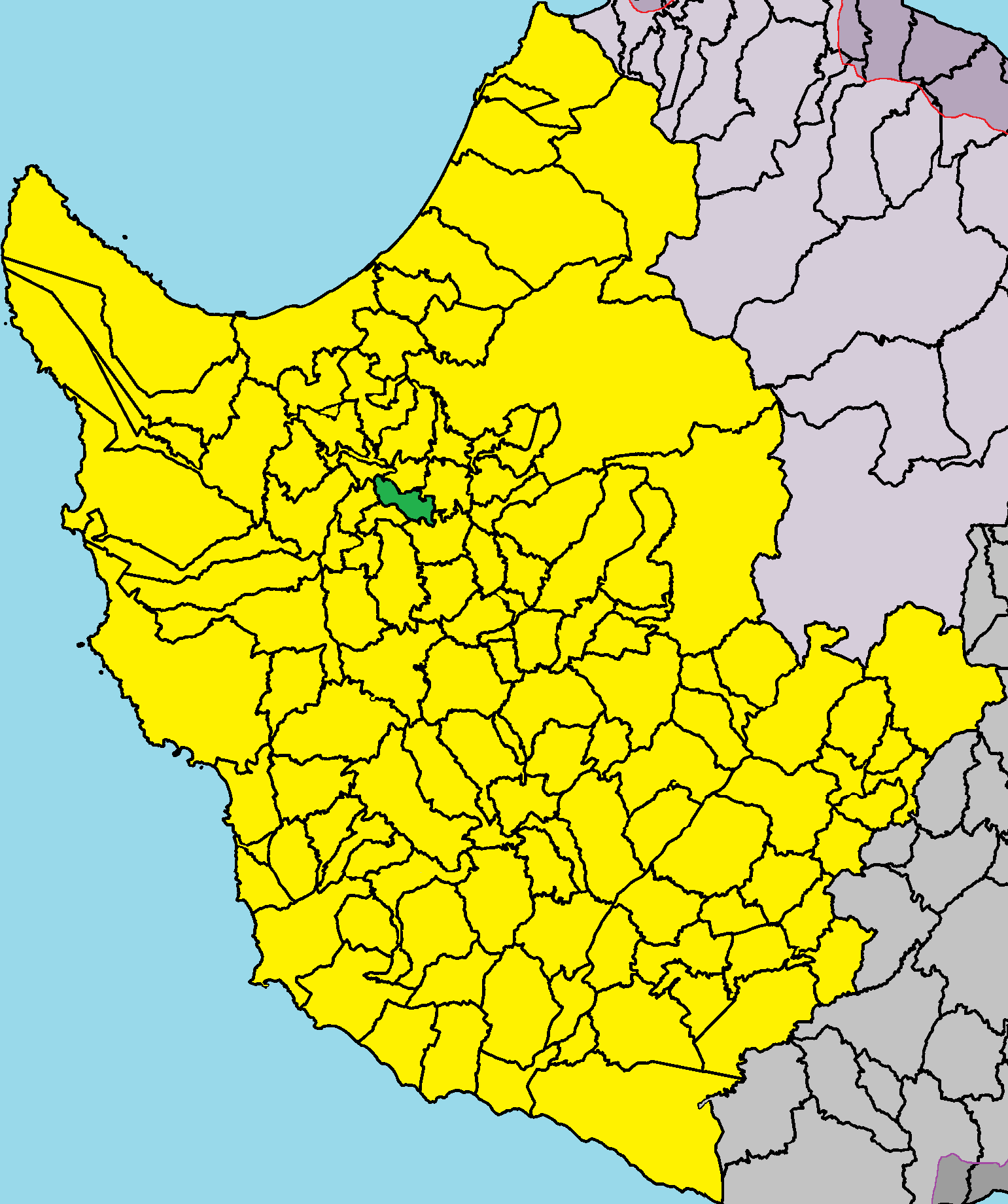 Evretou in Paphos District.